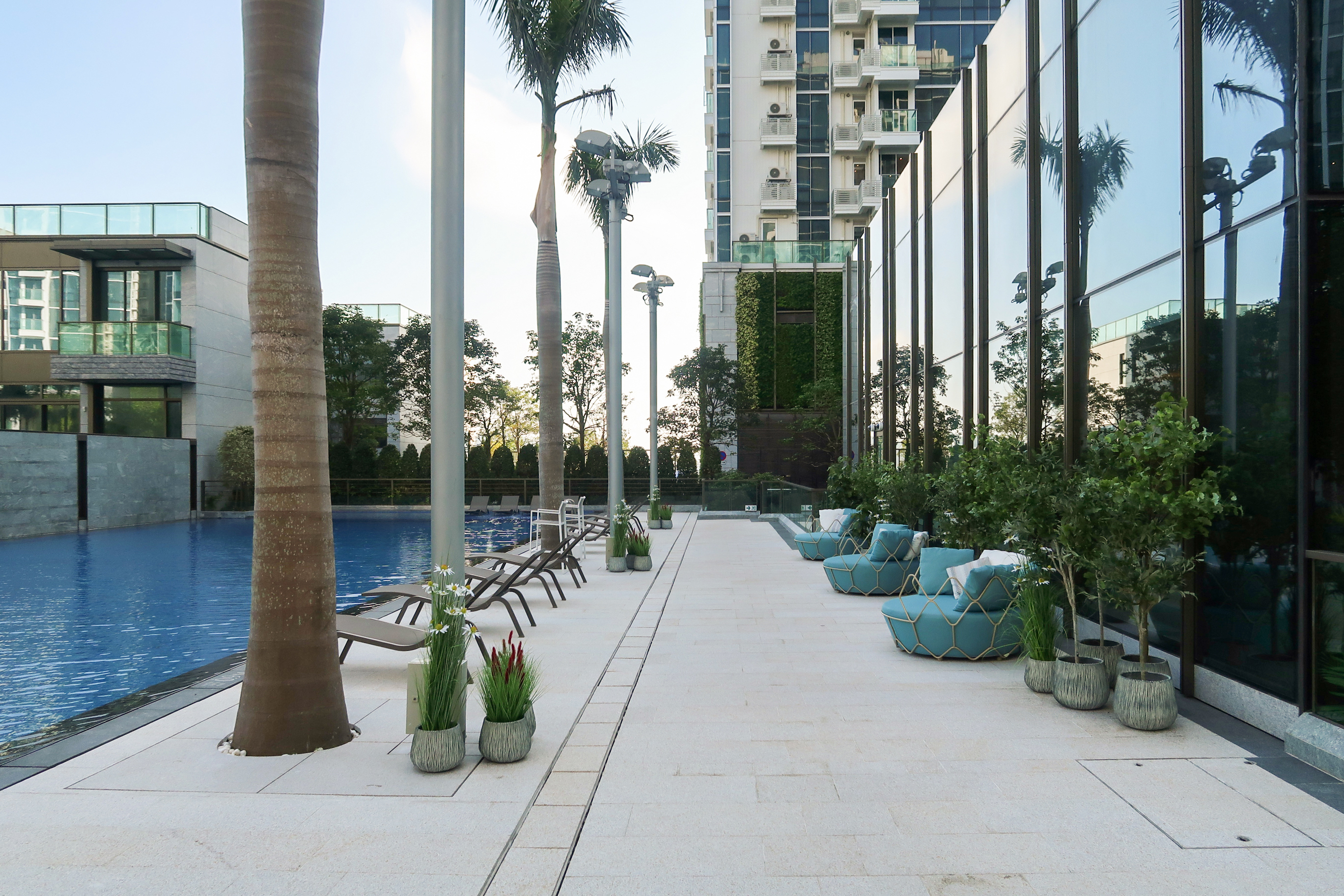 CLUB MONTEREY Swimming Pool